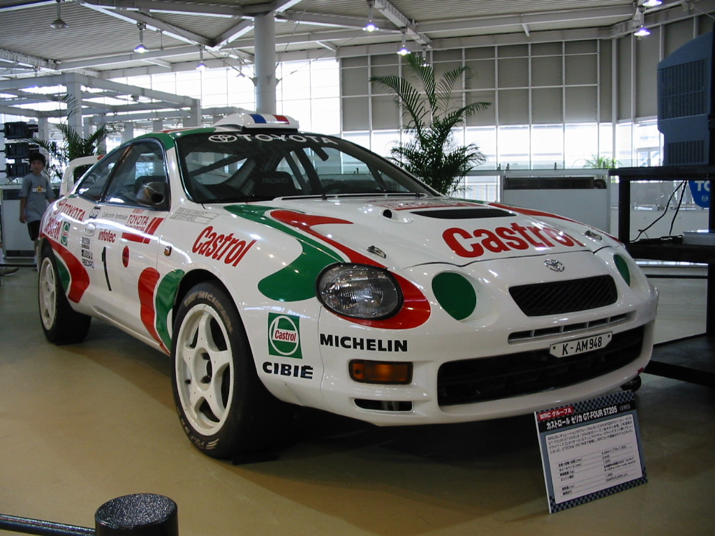 6th Toyota_Celica GT-Four WRC (ST205) taken in Showroom of Toyota -MEGAWEB